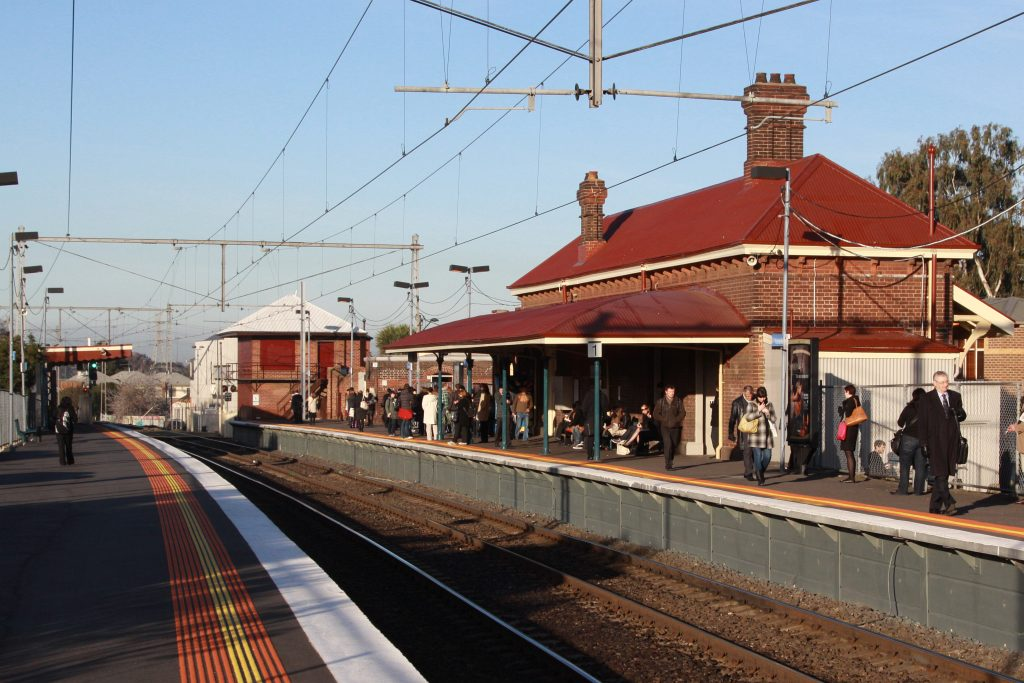 Overview of Yarraville railway station from the city end. Brick station building on citybound platform 1, a timber shelter is on platform 2.